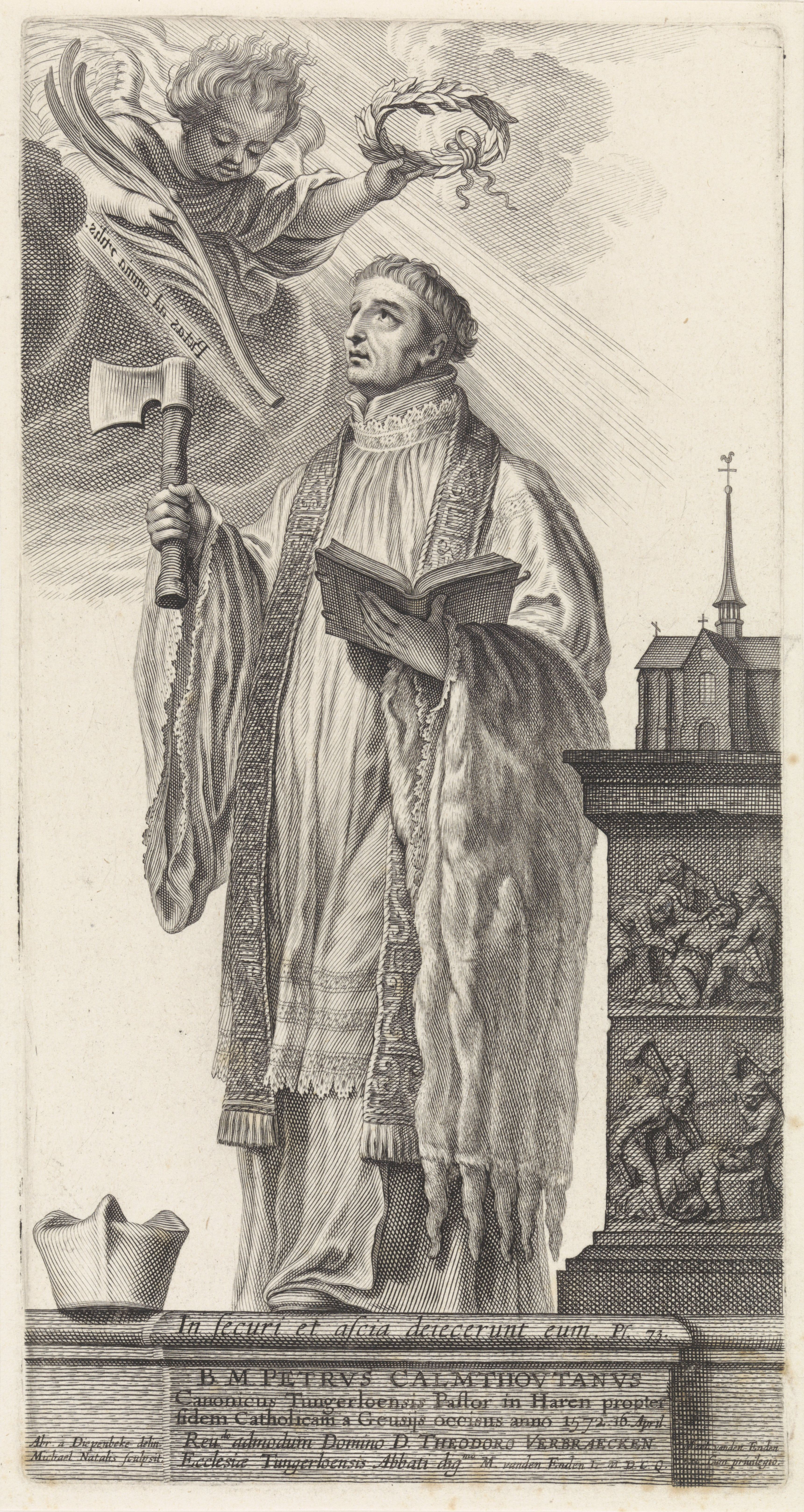 A depiction of Petrus van Kalmpthout, murdered for refusing to renounce the Catholic faith on 16 April 1572, engraved by Michel Natalis after Abraham van Diepenbeeck